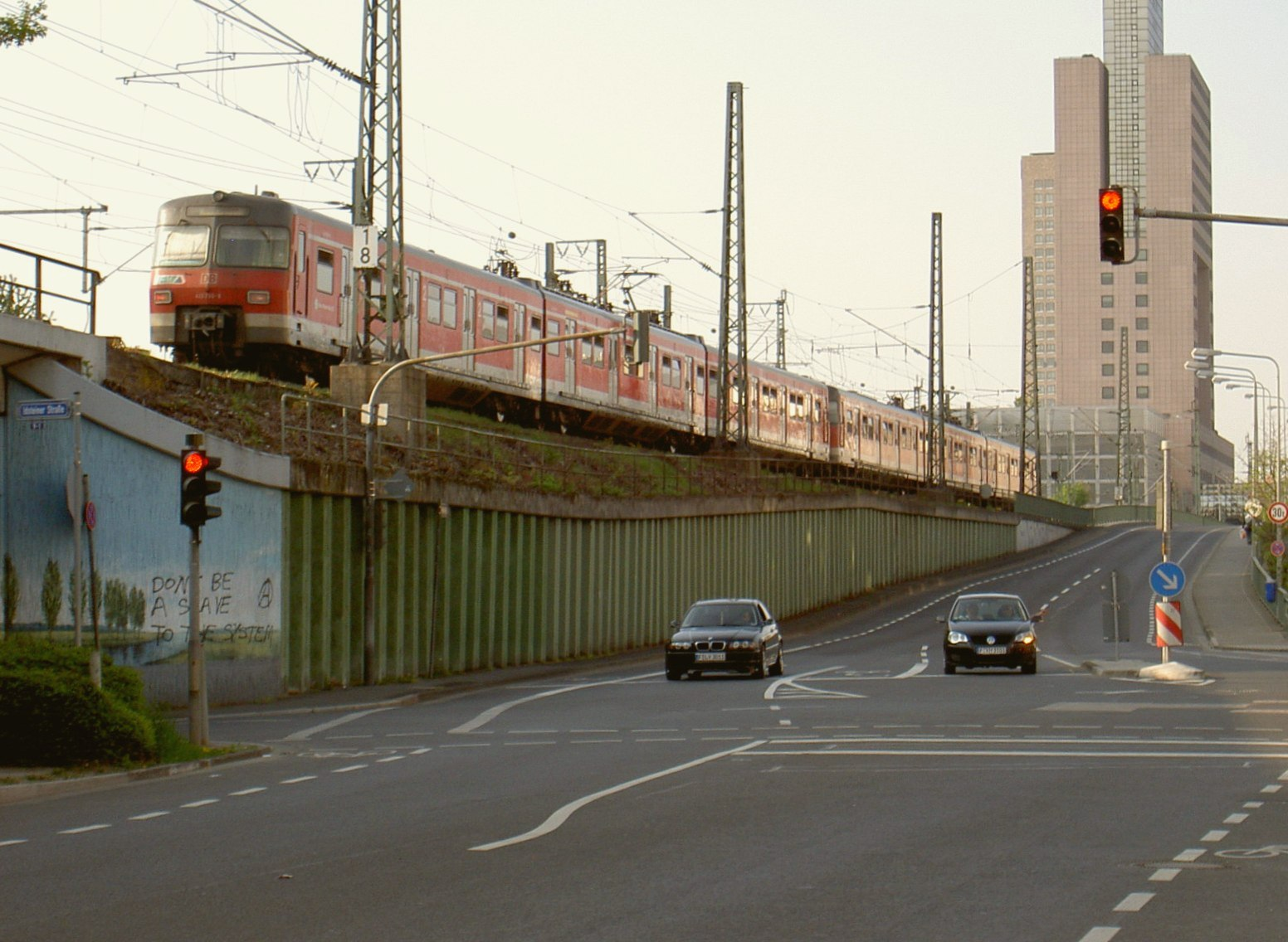 S-Bahn at the Emser Brücke in Frankfurt-Gallus